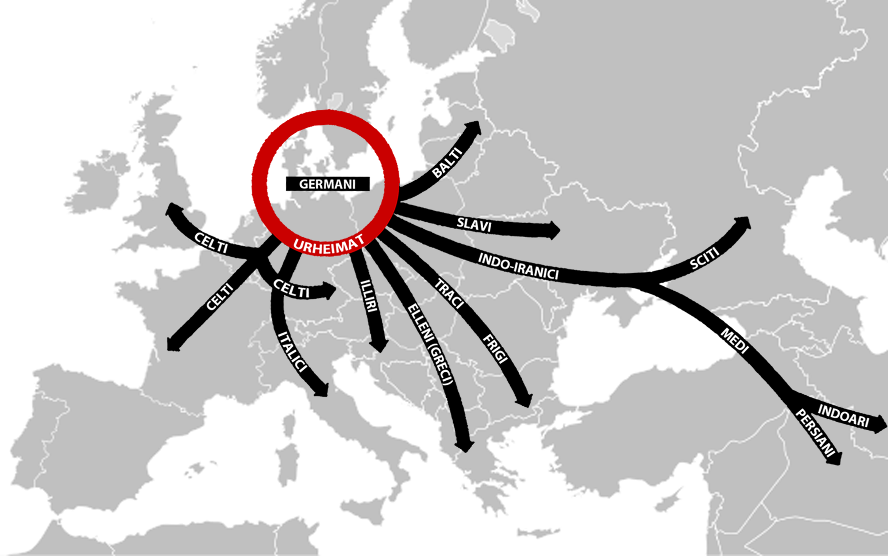 The Indo-European urheimat (red circle) and the expansion of Indo-European peoples according to Kossinna.